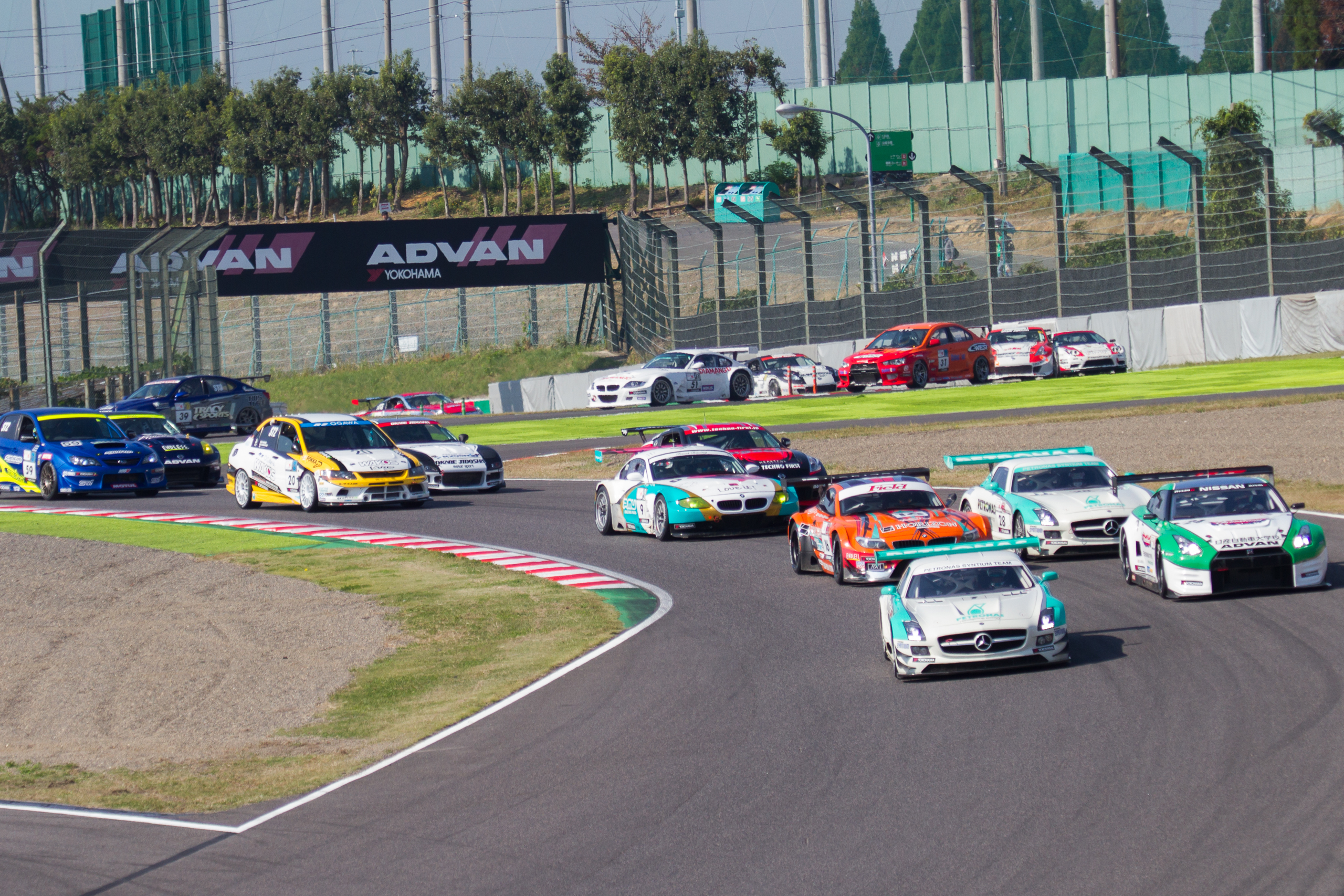 Super Taikyu 2012 Rd.5 Suzuka: Start of the Race 1